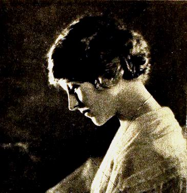 Actress Winifred Kingston (1894 – 1967) on page 34 of the March 1920 Motion Picture Magazine.